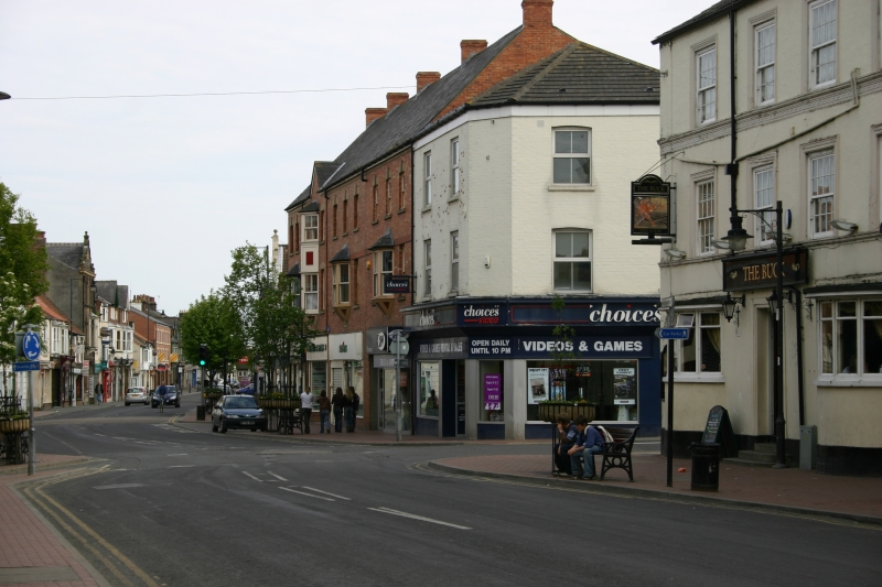 Driffield High Street, Driffield, East Riding of Yorkshire, England.